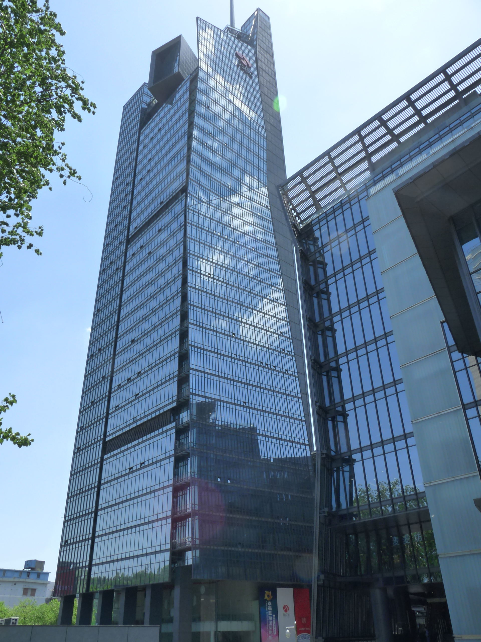 Nanjing - TV building